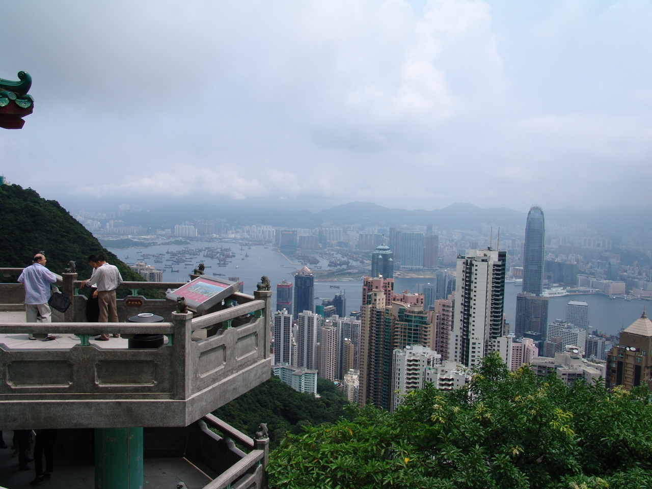 Hong Kong - The Peak - view of Hong Kong from The Peak - August 2005